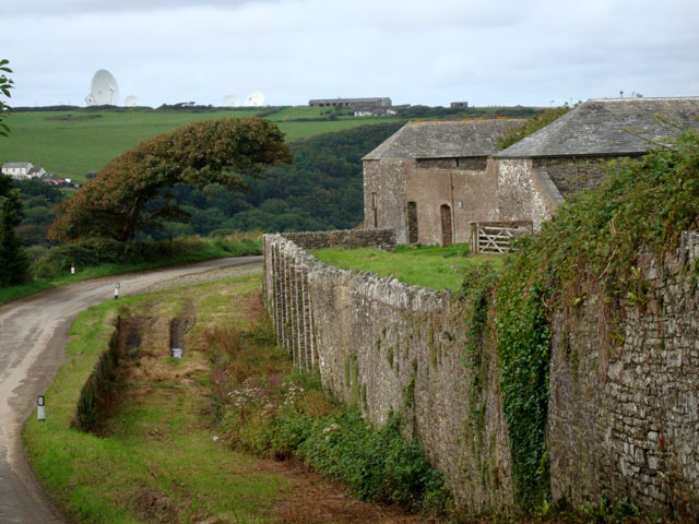 Stowe Barton Farm - a closer view The Farm and the GCHQ listening station. The dip at the side of the road is an ancient "drive-thru" pond designed for cleaning the wheels of carriages.